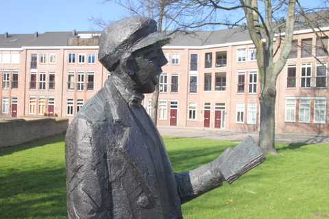 Statue commemorating all village announcers in Spijkenisse